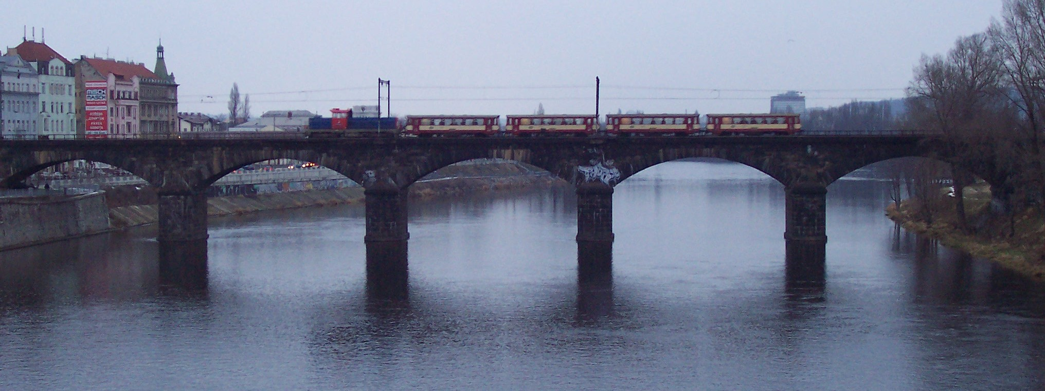 Negrelli Viaduct, Prague, Czech Republic